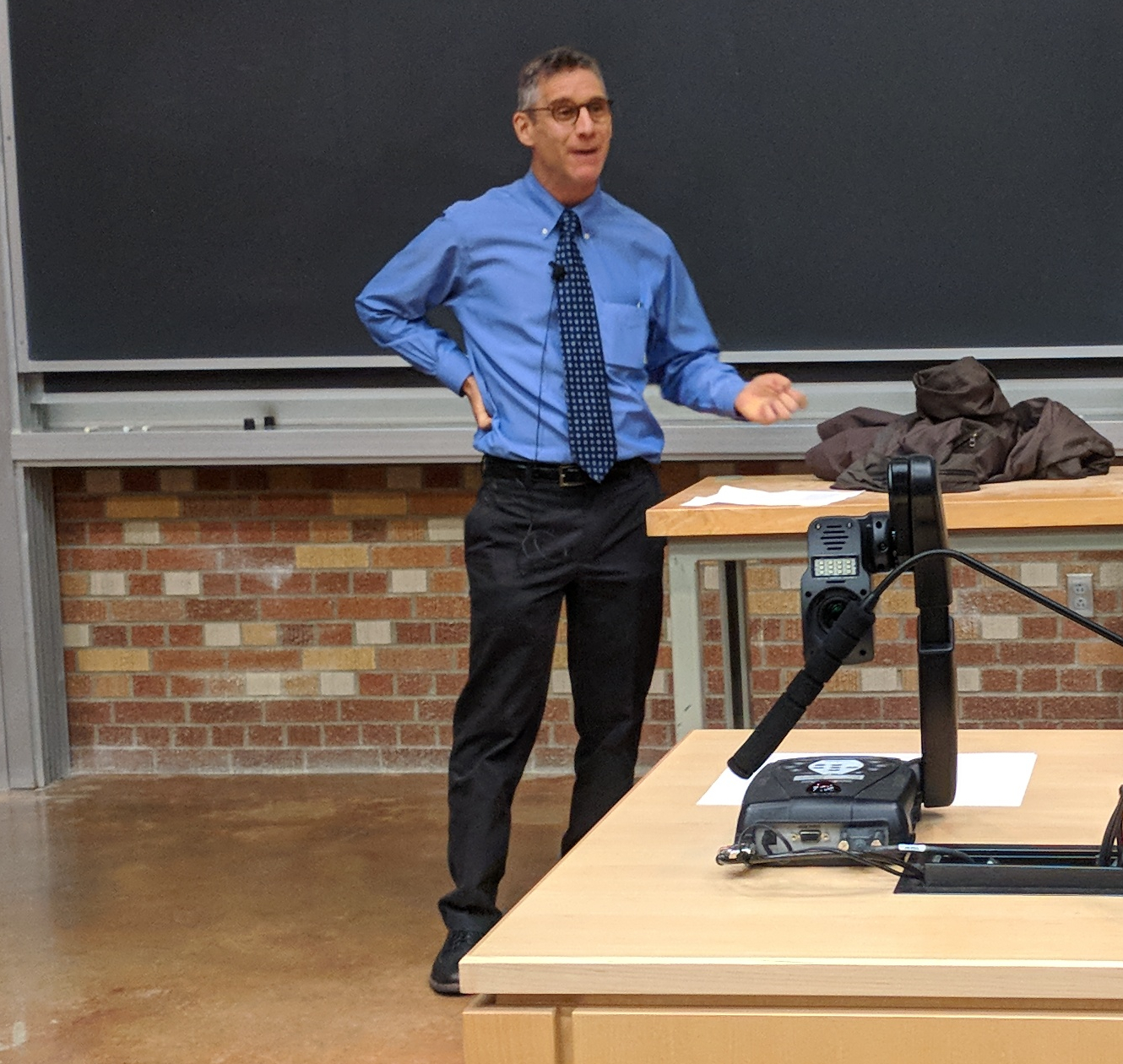 Andrew Gelman speaking at the University of Washington.